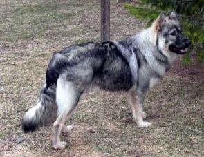 American Alsatian, CH Here Comes the Judge (2009)